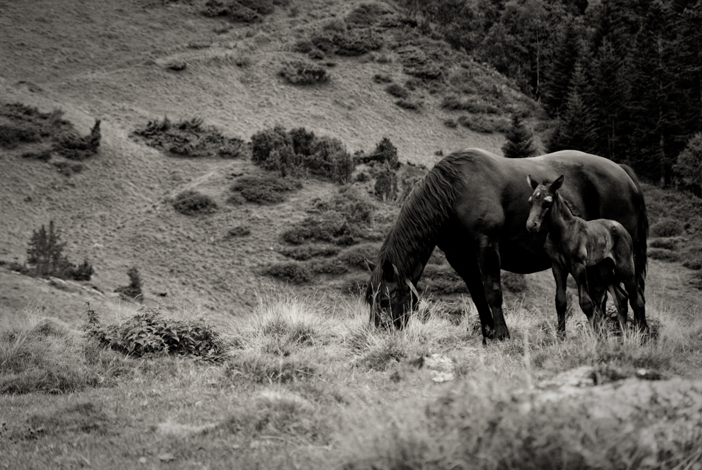 The Mérens is a breed of small horses originating in the French valley of the Ariege in the central Pyrenees.